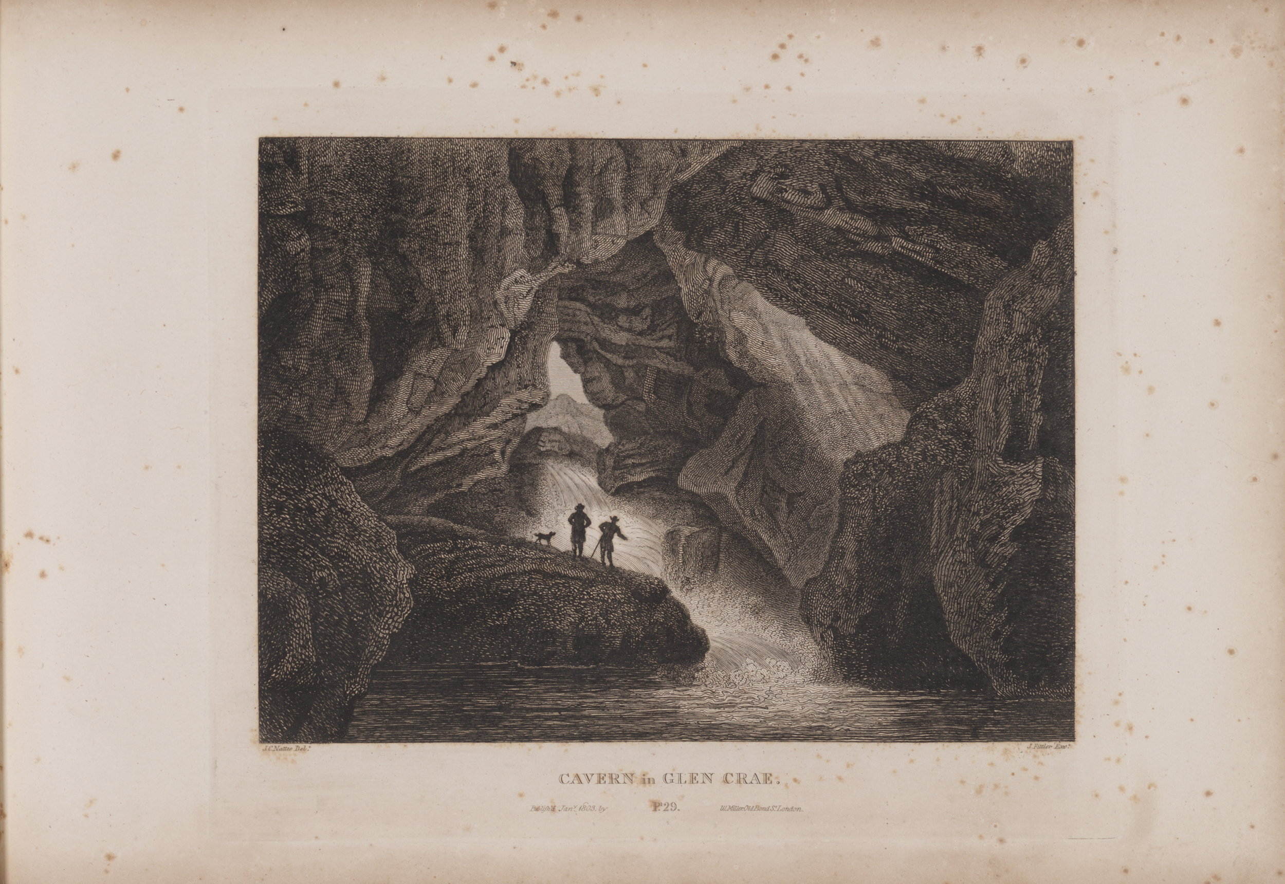 Plate XXIX/b - John Claude Nattes made drawings of suitable scenes on the spot; etchings are by James Fittler.